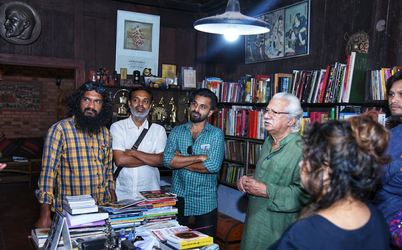 Coffee Chat with Adoor